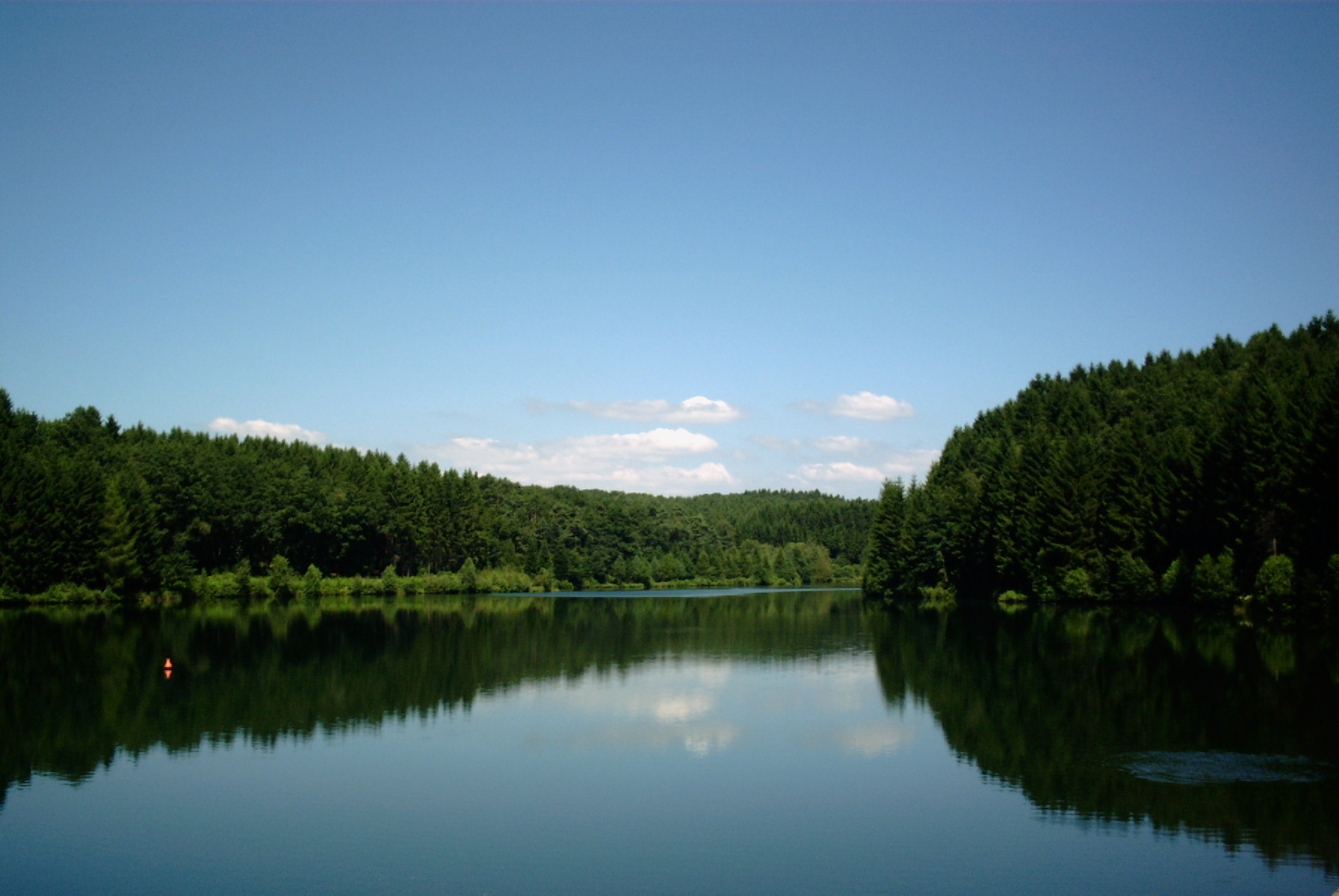 Silbertalsperre near Wipperfürth